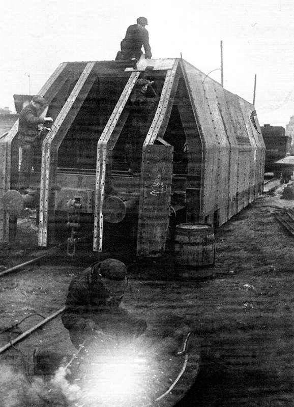 Russian armored train in WWII